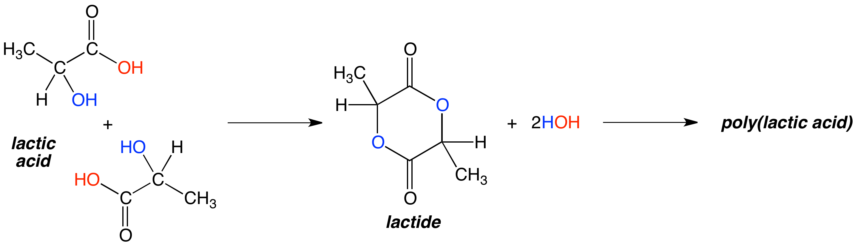 Polylactic acid (PLA) synthesis via the intermediate dimer lactide.